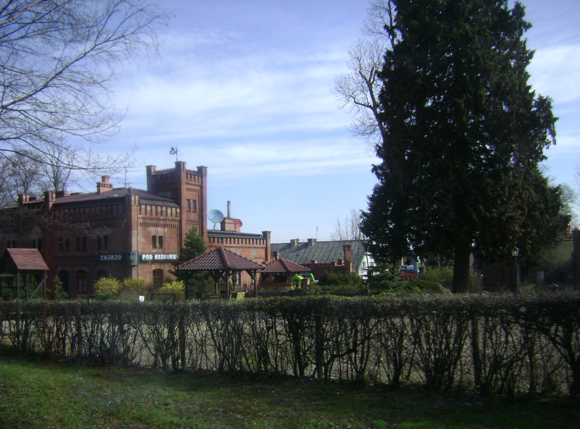 Poland. Małdyty